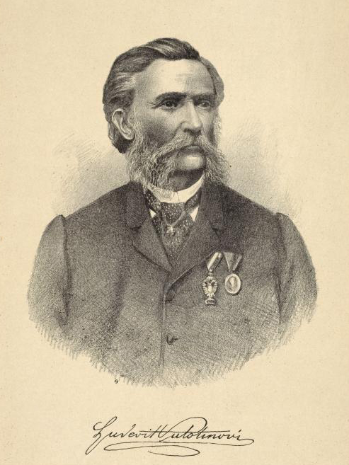 Croatian writer and educator Liudjevit Farkaš Vukotinović (1813—1893)